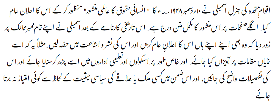 A sample of the Awami Nastaliq font, captured from Awami Nastaliq Font Type Sample, page 5.